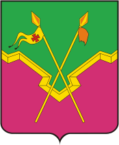 Eiskoukreplenskoe (Krasnodar krai), coat of arms